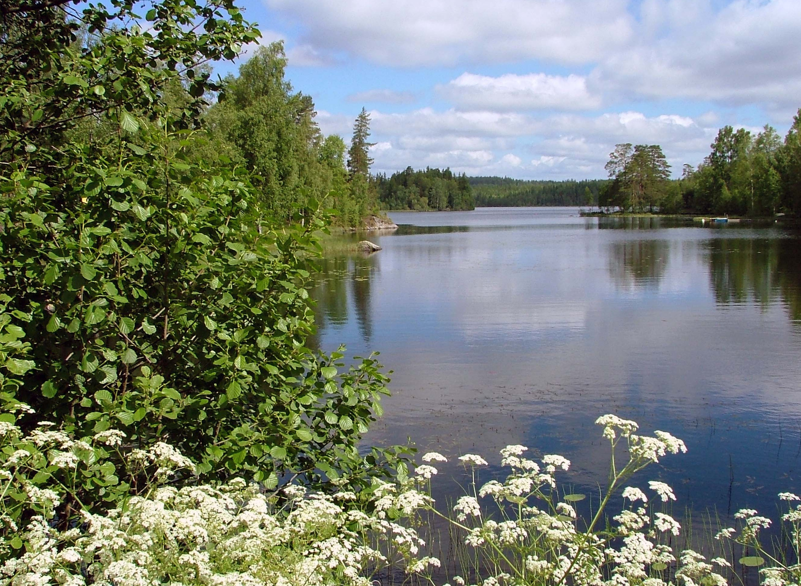 Boskvarn lake north of Lindshammar where Mörrumsån rises